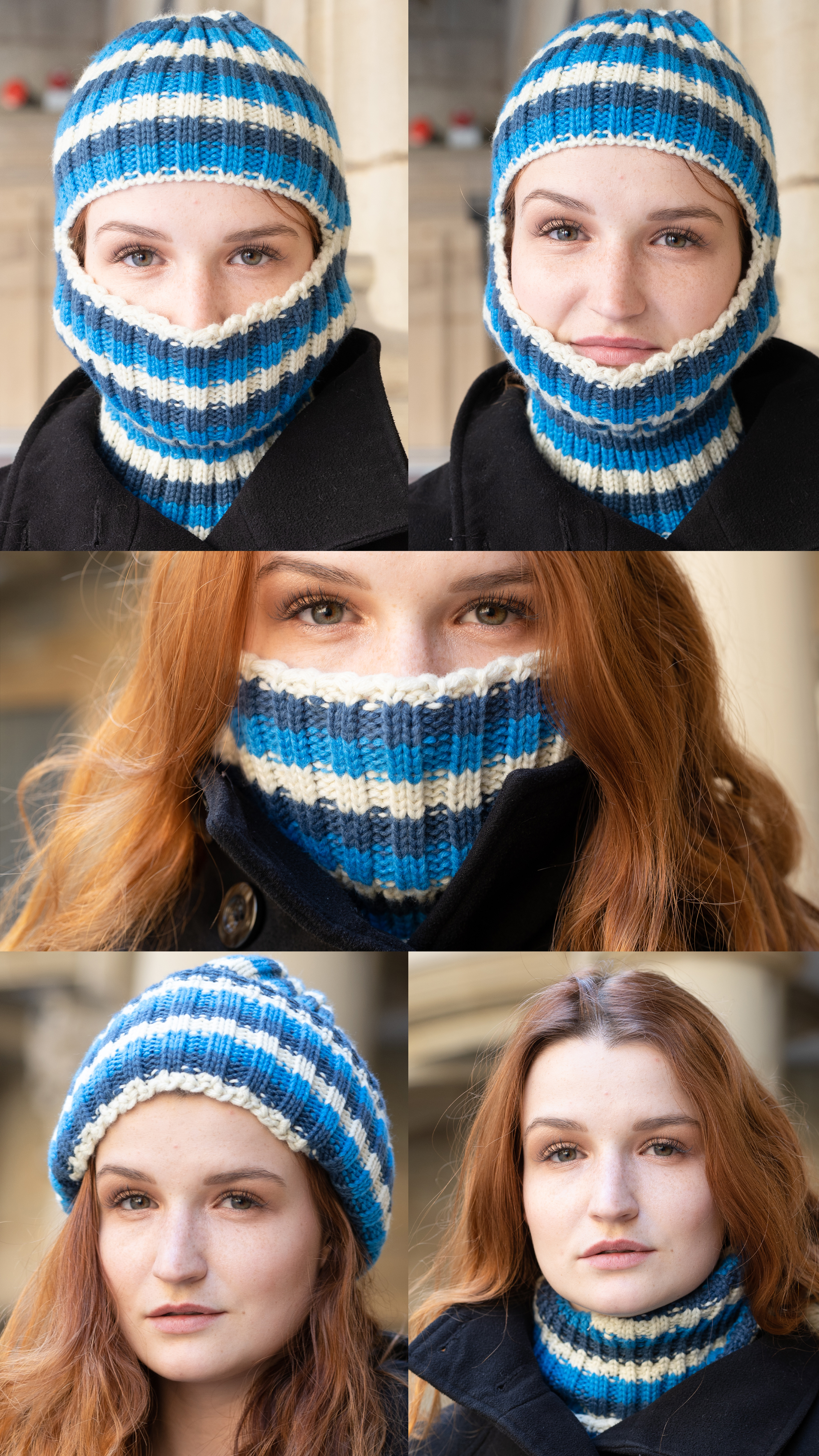 Balaclava as suggested fashion piece for winter 2018/2019. Composite image of five different ways to wear it. From top left to right bottom. The two basic ways covering the whole head and neck, showing only the eyes and nasal bridge. Or showing the framed face. Only covering the face below the eyes and preventing distortion of the hair style. As knit cap. Around the neck as scarf. Note on the fitment: While the supposedly for females universal sized balaclava was cut to leave a very narrow slit for the eyes, it worked only on a larger male head. For the female model it worked only with cap part tucked behind her neck, like on the center image.